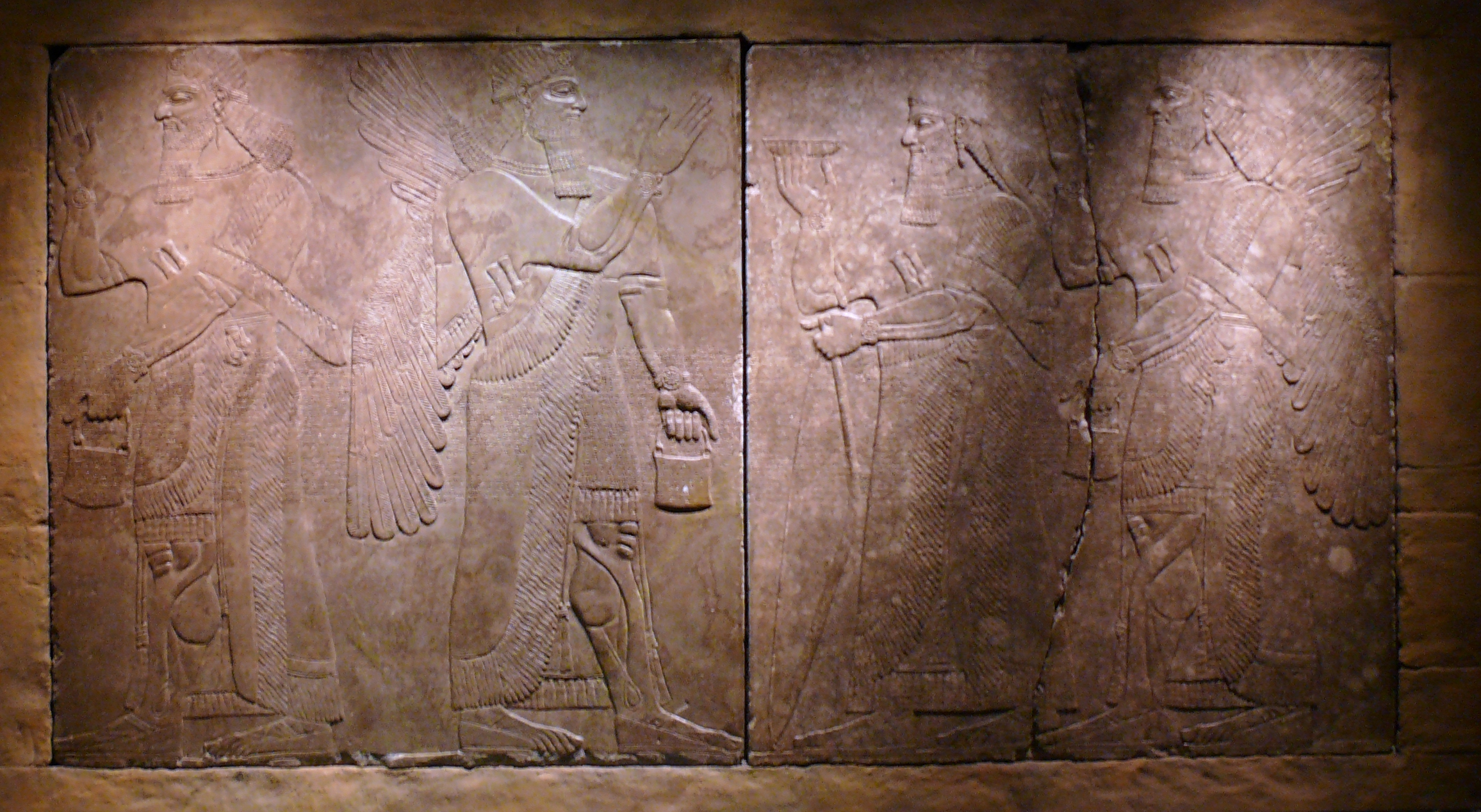 Assyrian relief found at Nimrud (Iraq) in the Bristol City Museum and Art Gallery.